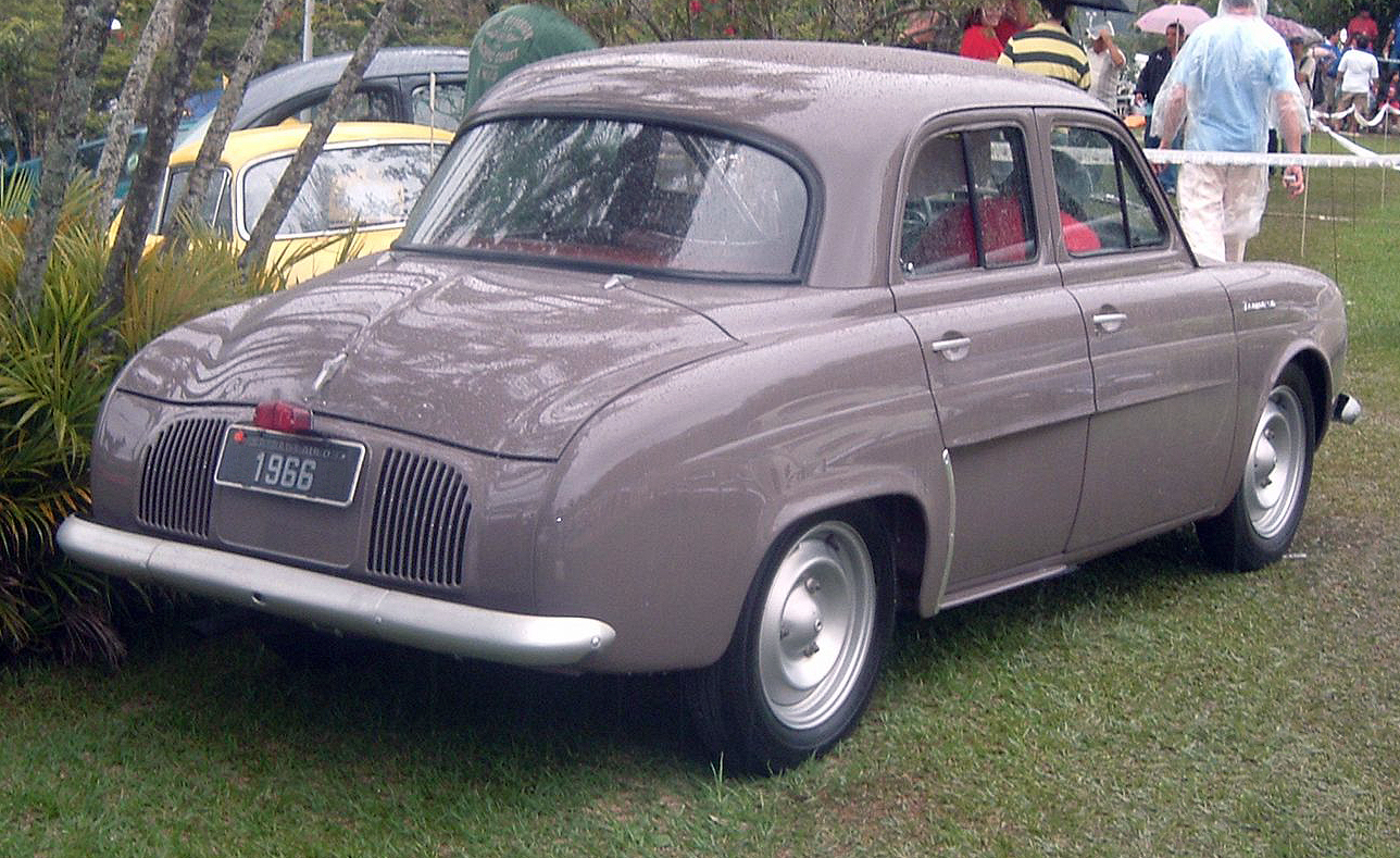 1966 Renault Teimoso, a cheapo Brazilian version of the Dauphine. Painted bumpers and a single taillight give away the game.